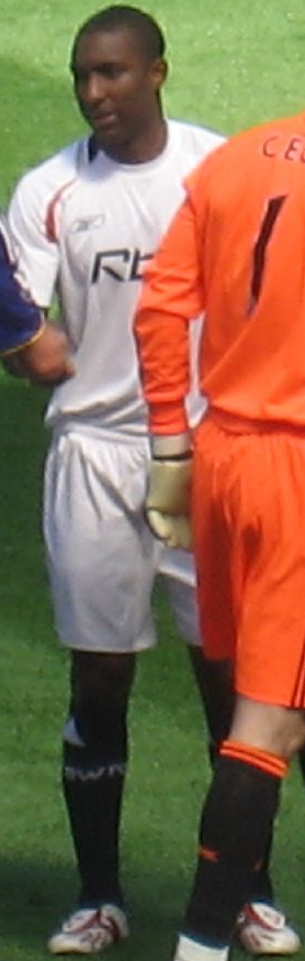 Jlloyd Samuel. Image cropped from original at flickr.